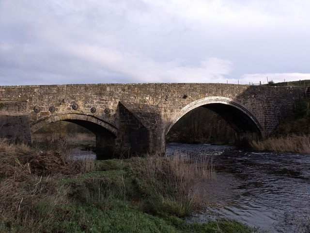 The Carron Bridge At Carron Bridge and not to be confused with a few other bridges that cross the river further downstream. The bridge is dated 1695 and as a result of spates it was repaired in 1715 and 1907.